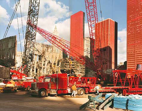 Image from The Bureau of Educational and Cultural Affairs (ECA) of the U.S. State Department and the Museum of the City of New York of the World Trade Center attacks. Photographer: Joel Meyerowitz.